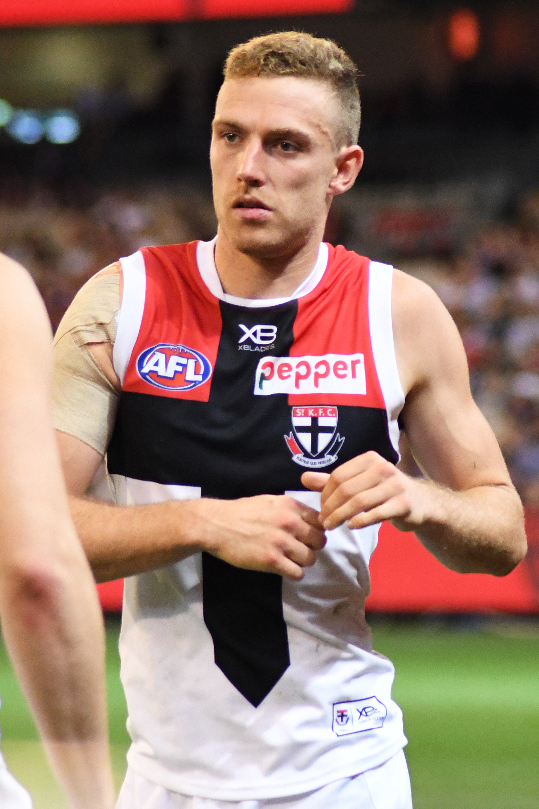 Callum Wilkie of St Kilda during the 2019 AFL round 5 match between Melbourne and St Kilda at the Melbourne Cricket Ground on Saturday, 20 April 2019 in Melbourne, Victoria.